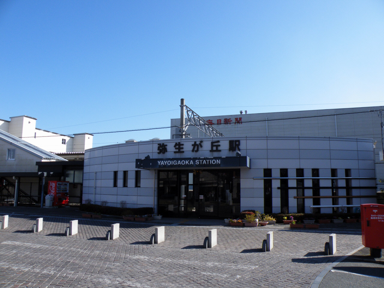 JRKyushu Yayoigaoka Station(Kagoshima Main Line)